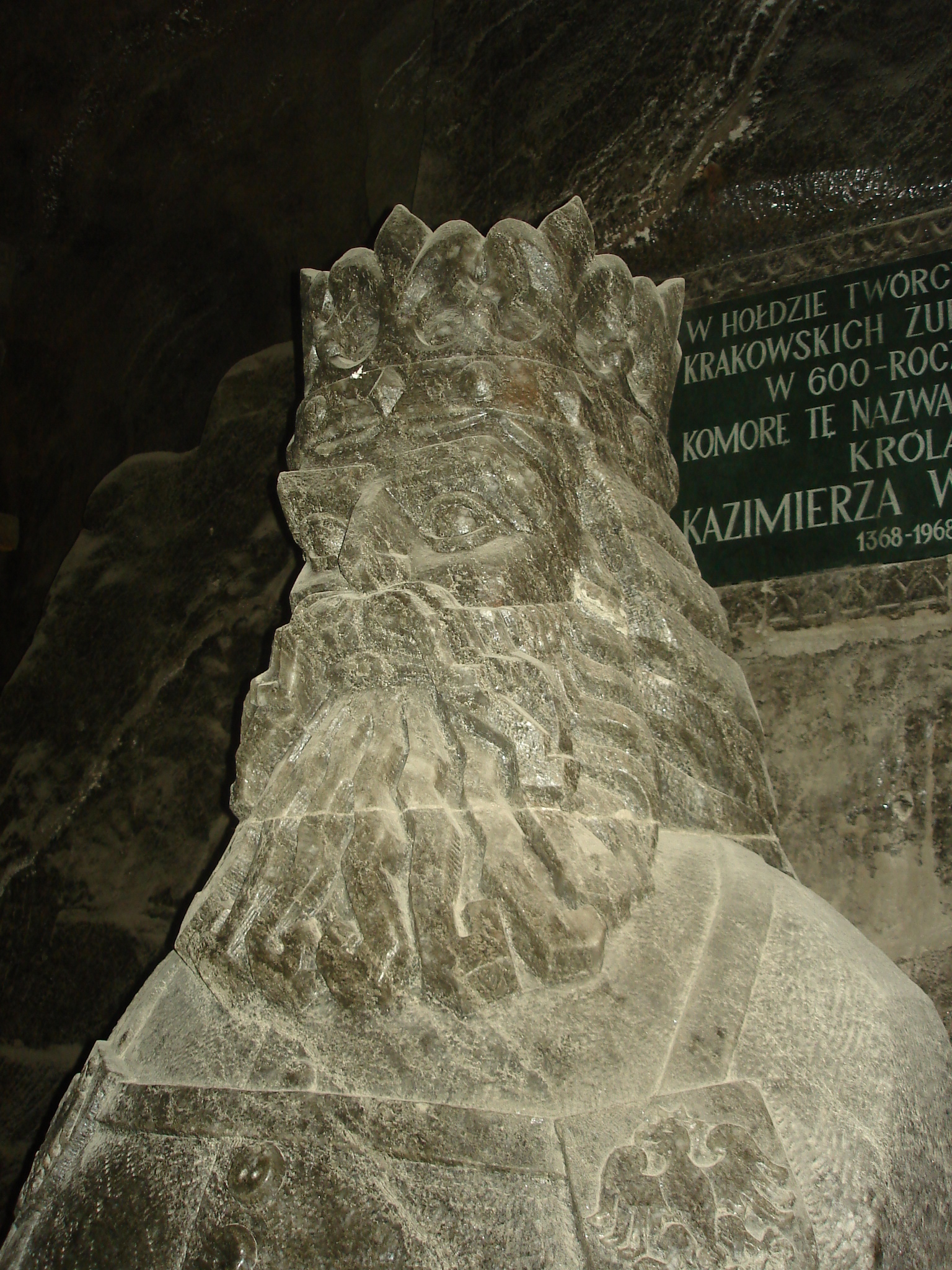 Casimir the Great Monument in Wieliczka, Poland